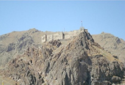 Kaputru Castle